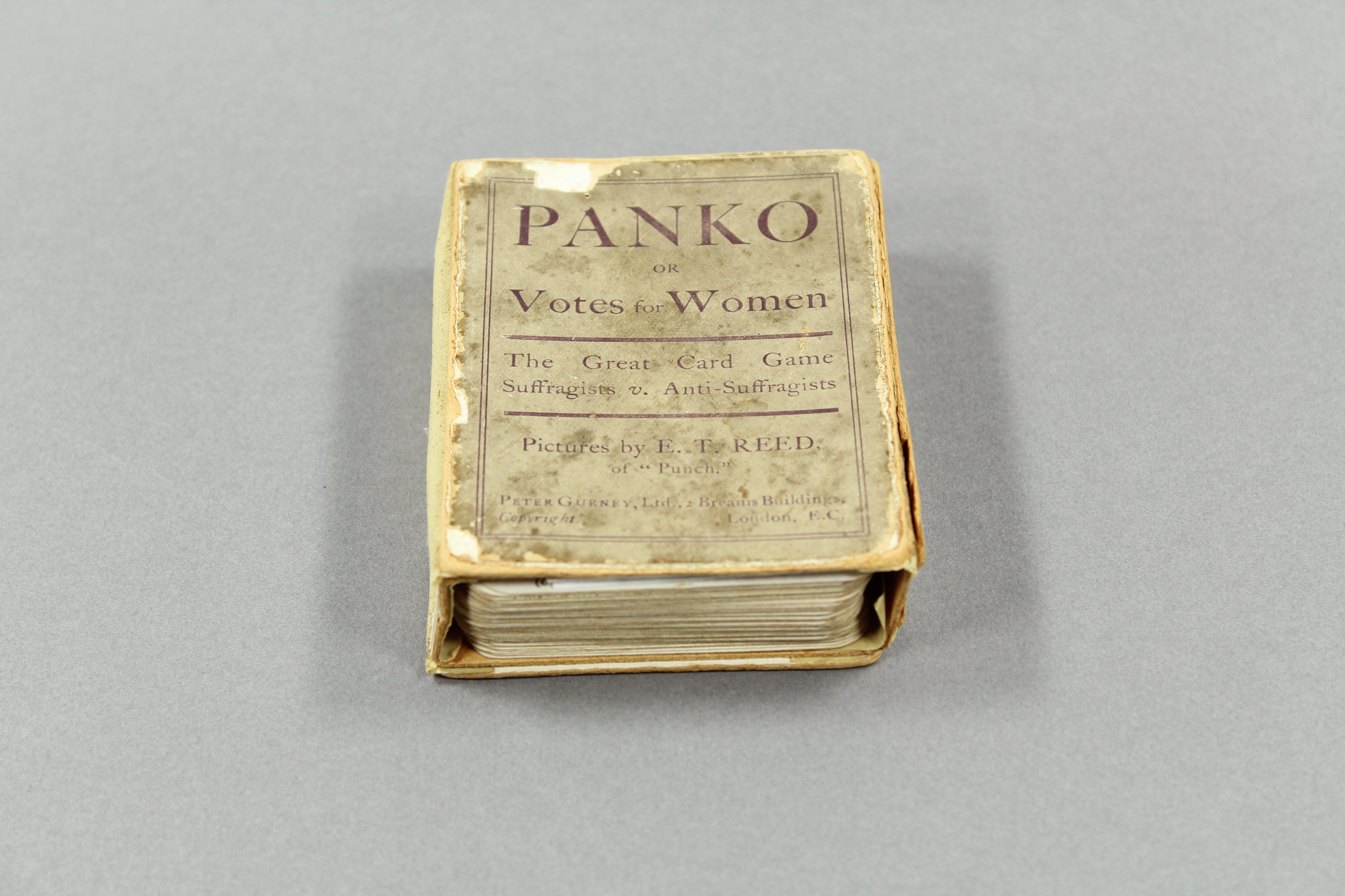 This file was uploaded as part of a GLAMWiki partnership with Glasgow Women's Library. You can find out more on the Museums Galleries Scotland project page. This tag does not indicate the copyright status of the attached work. A normal copyright tag is still required. See Commons:Licensing. The card game Panko. This card game was a satirical one, which featured male politicians who were against the suffrage cause, as well as famous suffragettes.